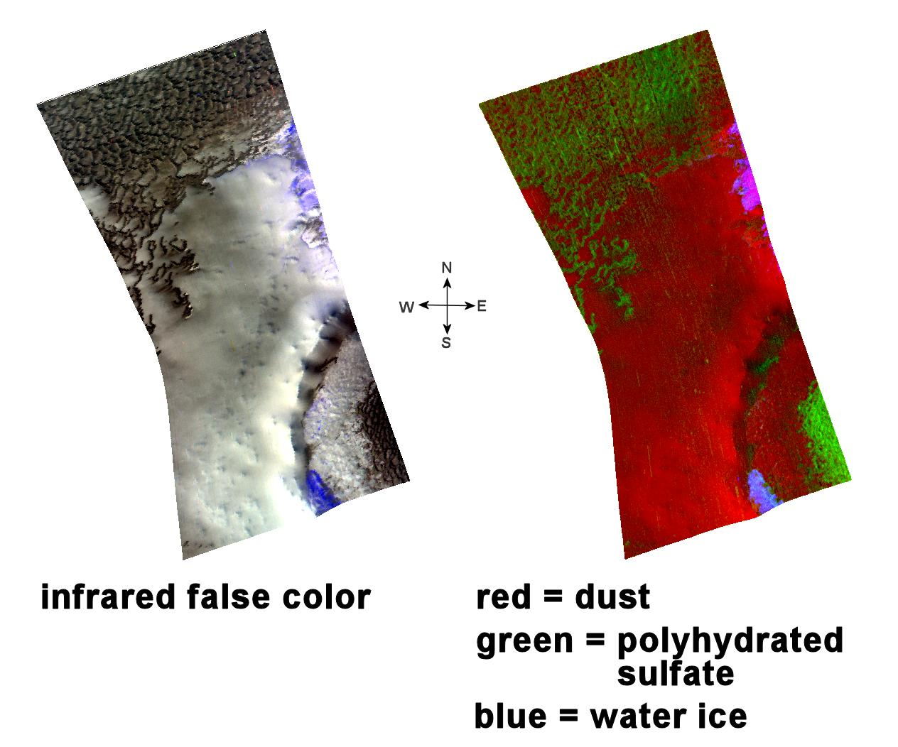 CRISM Spectral Signature of Gypsum in Olympia Undae, Mars